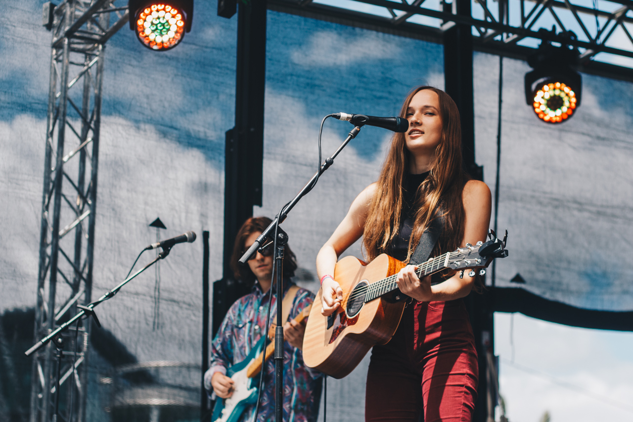 Gretta Ray at St Kilda Festival, February 2017